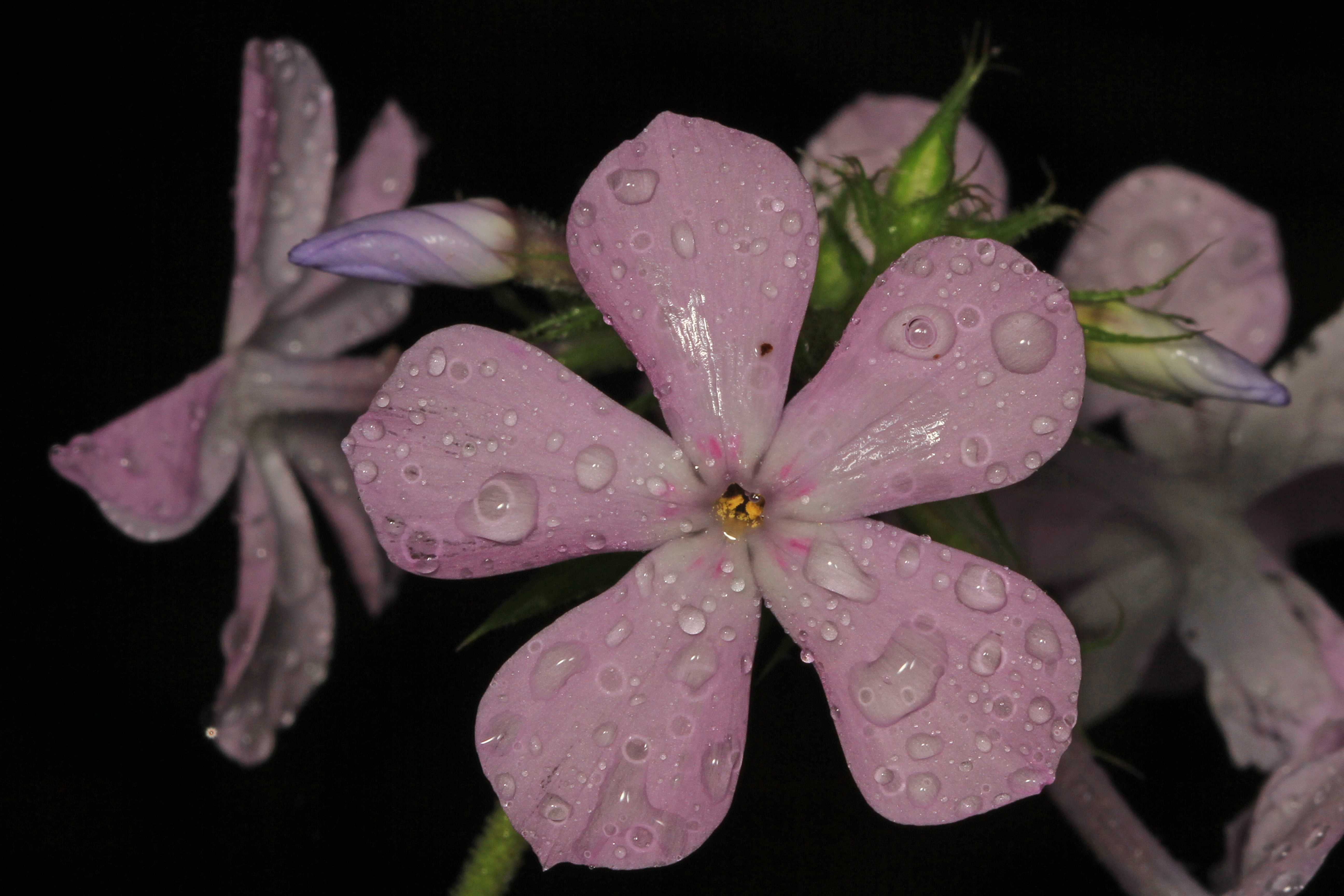 Wild Phlox, Felsenthal National Wildlife Refuge, Crossett, Arkansas.